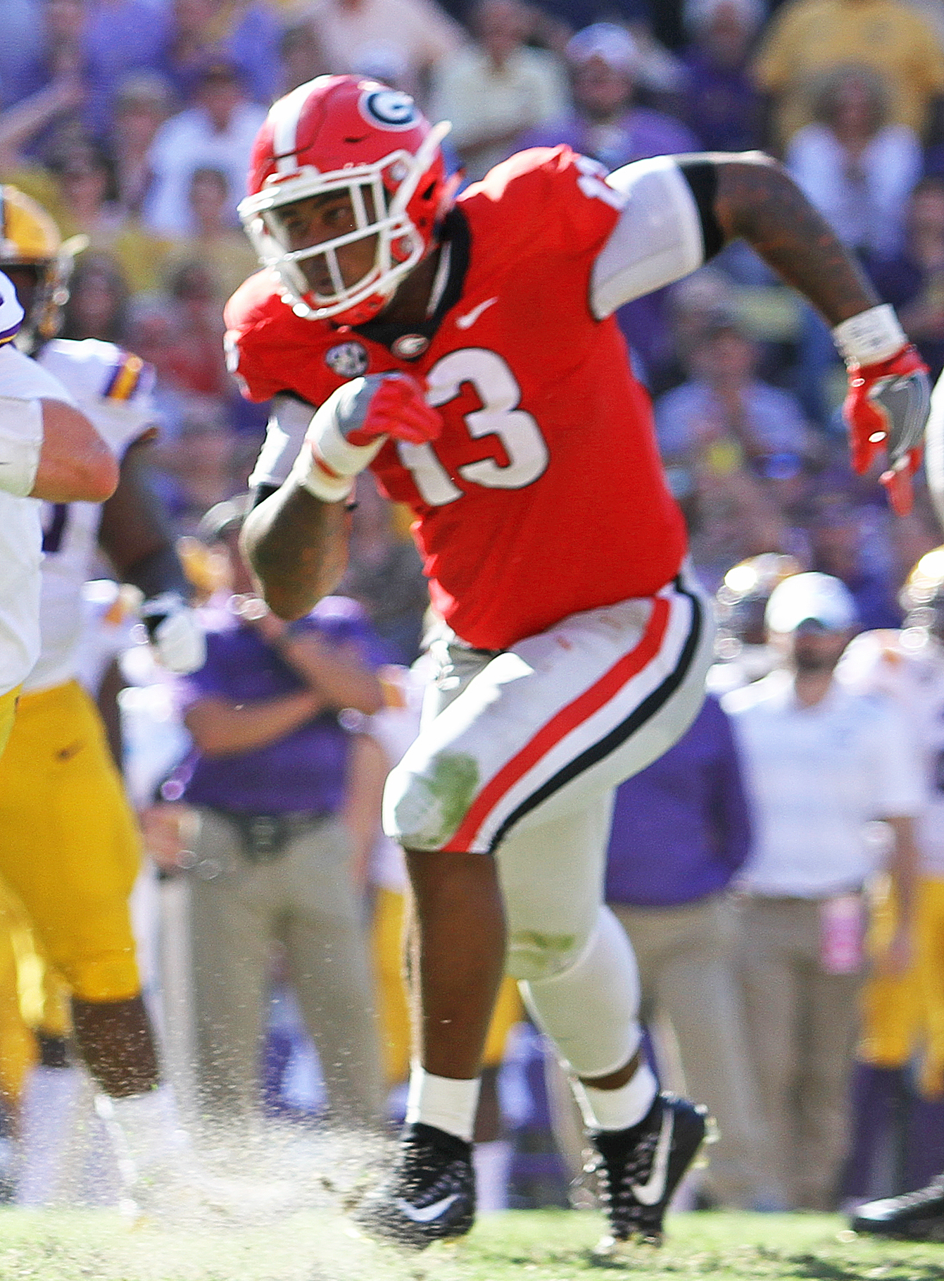 LSU quarterback Joe Burrow (9) on the run, Georgia Bulldogs defensive end Jonathan Ledbetter (13) and Georgia Bulldogs linebacker Keyon Richardson (11), Georgia Bulldogs vs LSU Tigers, Football, Tiger Stadium, October 13, 2018, Baton Rouge, Louisiana, Tammy Anthony Baker, Photographer